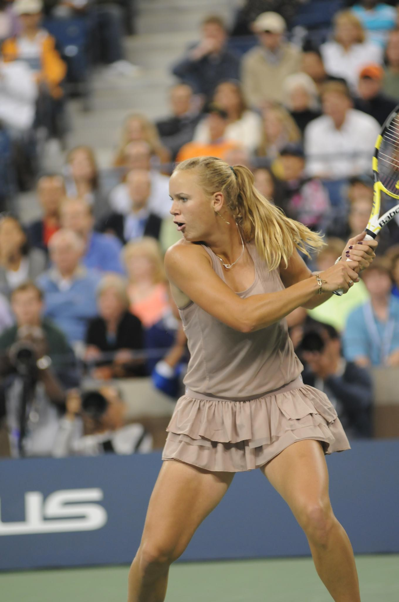 Caroline Wozniacki at the 2009 US Open